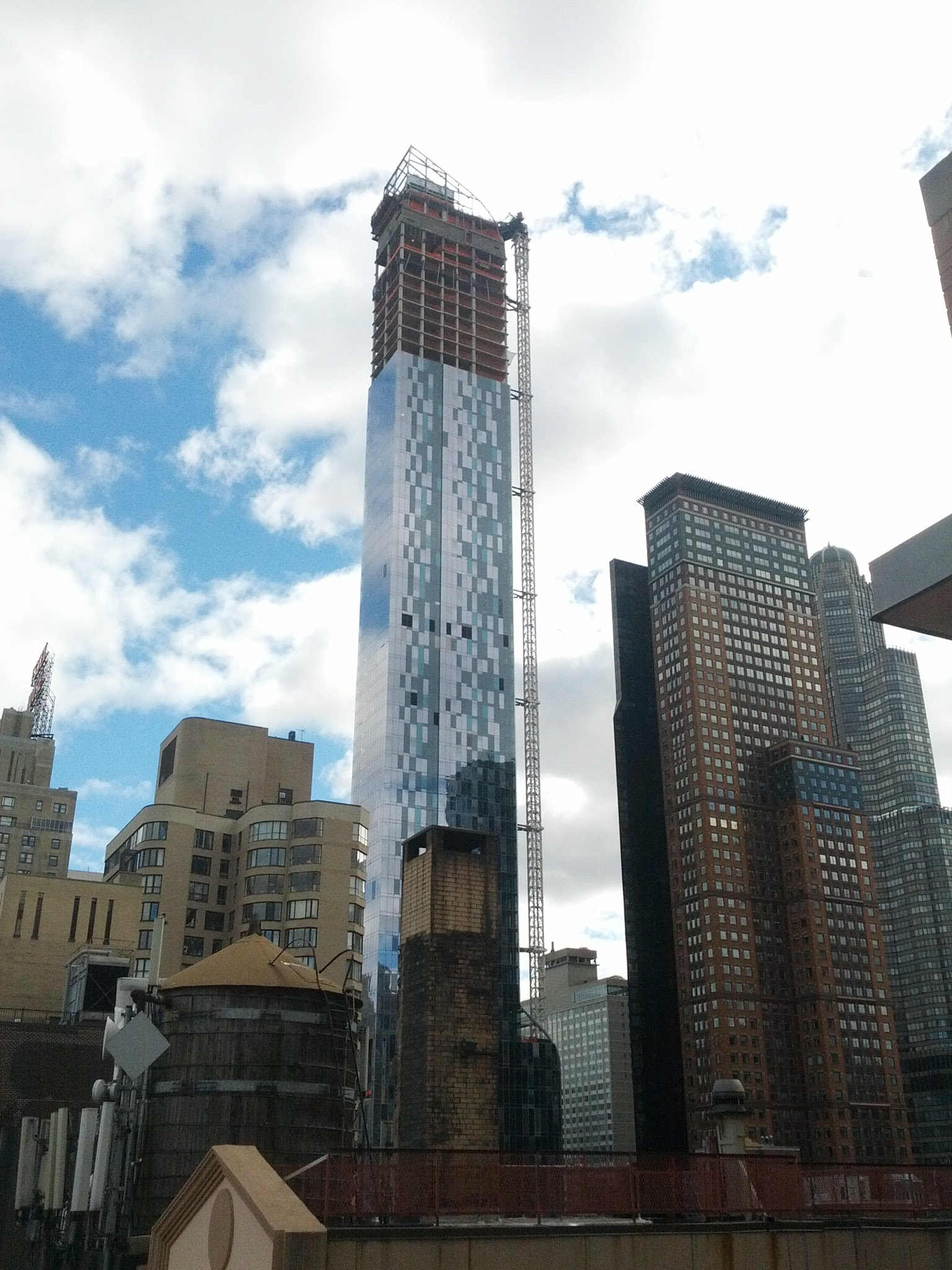 The residential skyscraper One57 under construction in November 2013.